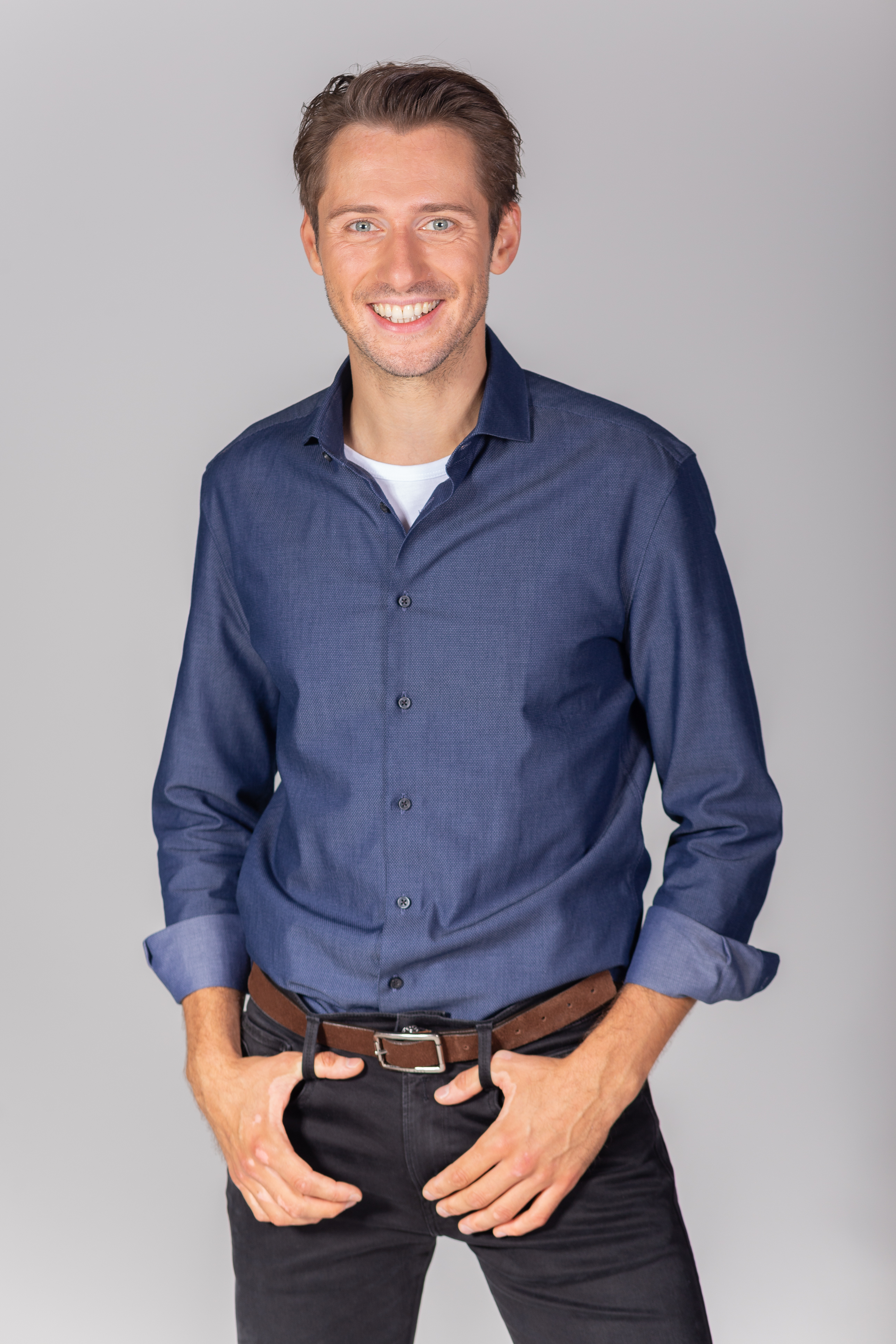 TV, ARD, cast "Rote Rosen"; Philipp Oliver Baumgarten